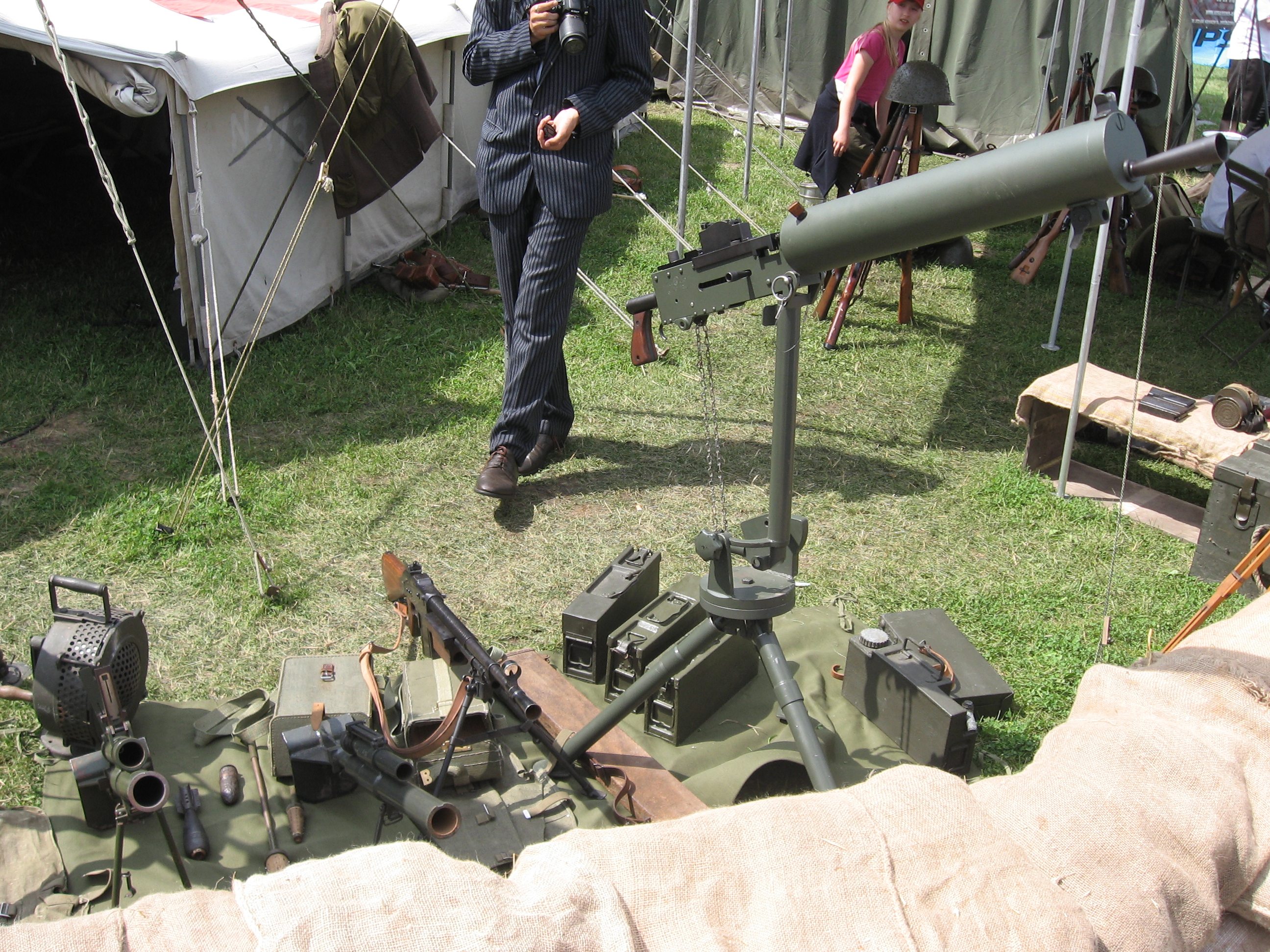 Two Granatnik wzór 36 grenade launchers, Browning wzór1928 light machine gun and Ciężki karabin maszynowy wzór 30 heavy machine gun (replica?) during the VII Aircraft Picnic in Kraków.